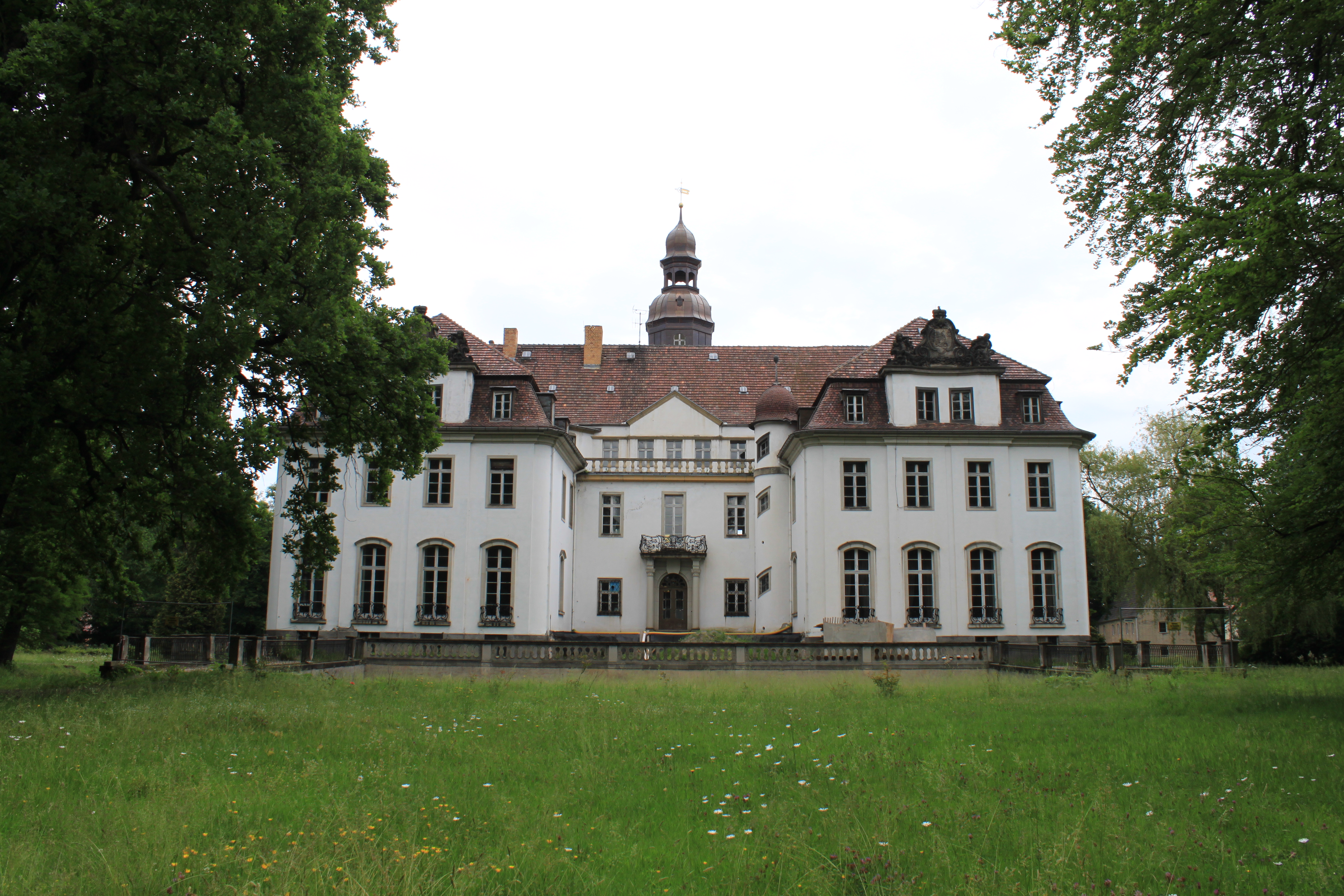 Castle Lindenau